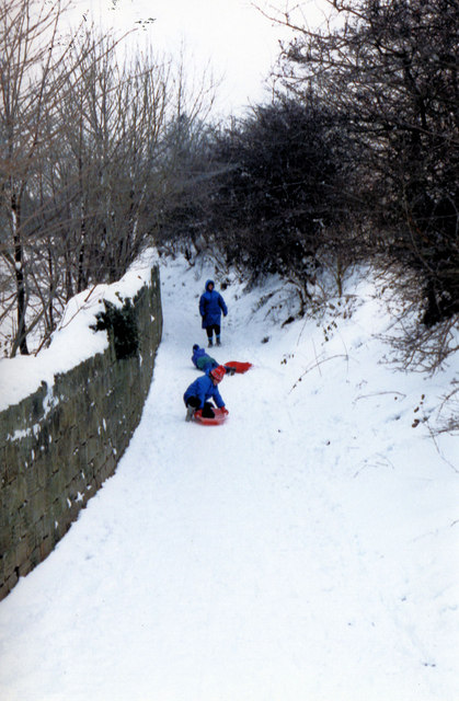 It did used to snow in Darfield. Sledging down the bridleway.